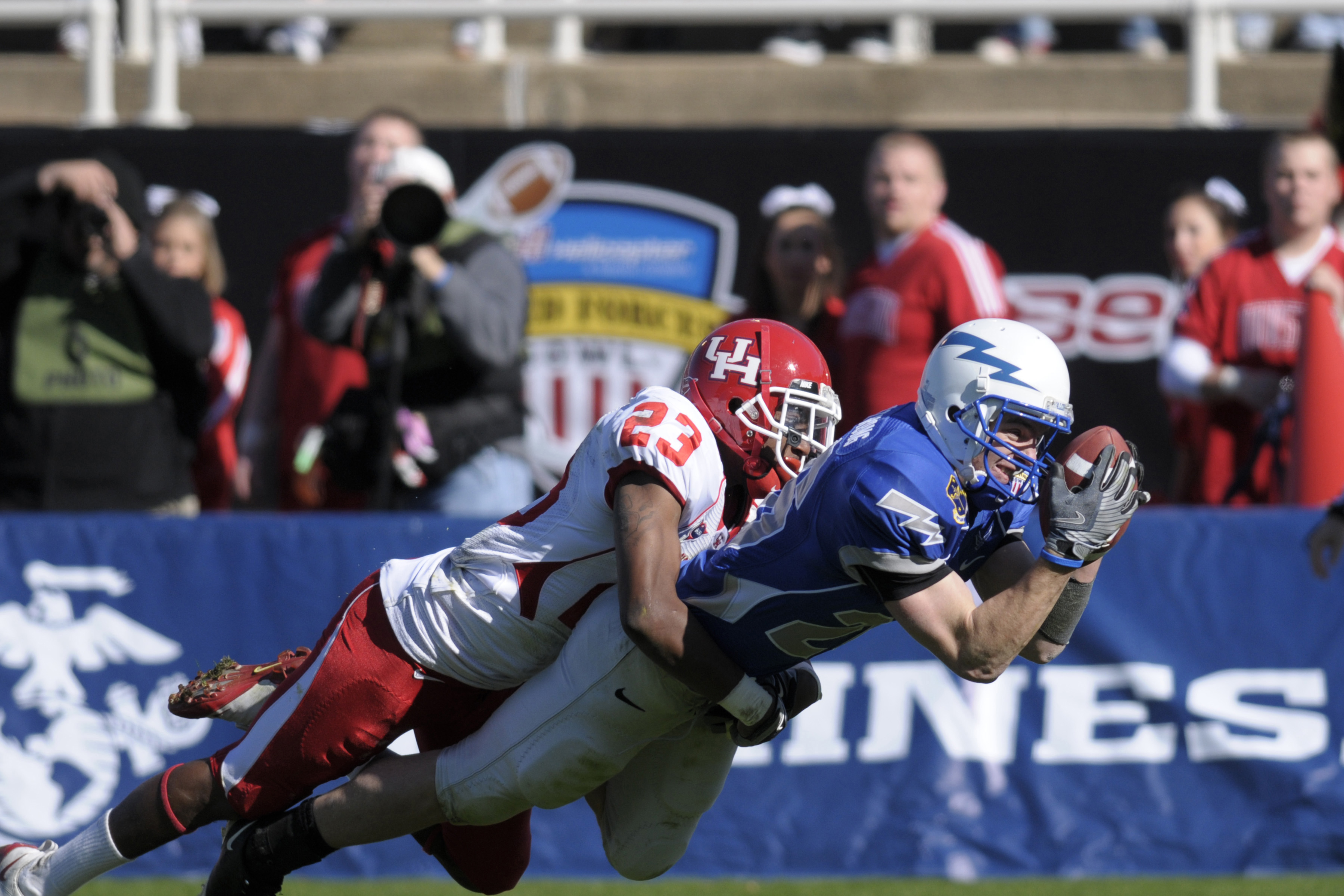 Air Force Academy wide receiver Spencer Armstrong pulls in a long bomb for a 46-yard gain during the Bell Helicoptor Armed Forces Bowl on Dec. 31, 2008. Only the tackle of University of Houston safety Carson Blackmon kept Armstrong out of the end zone on this play. Houston beat the Air Force Academy, 34-28.